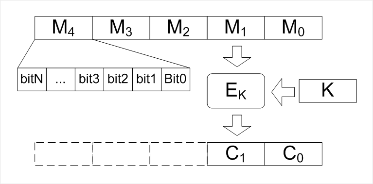 A common scheme of work of a block cipher